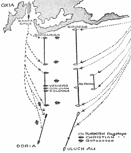 Fleet formation at the Battle of Lepanto